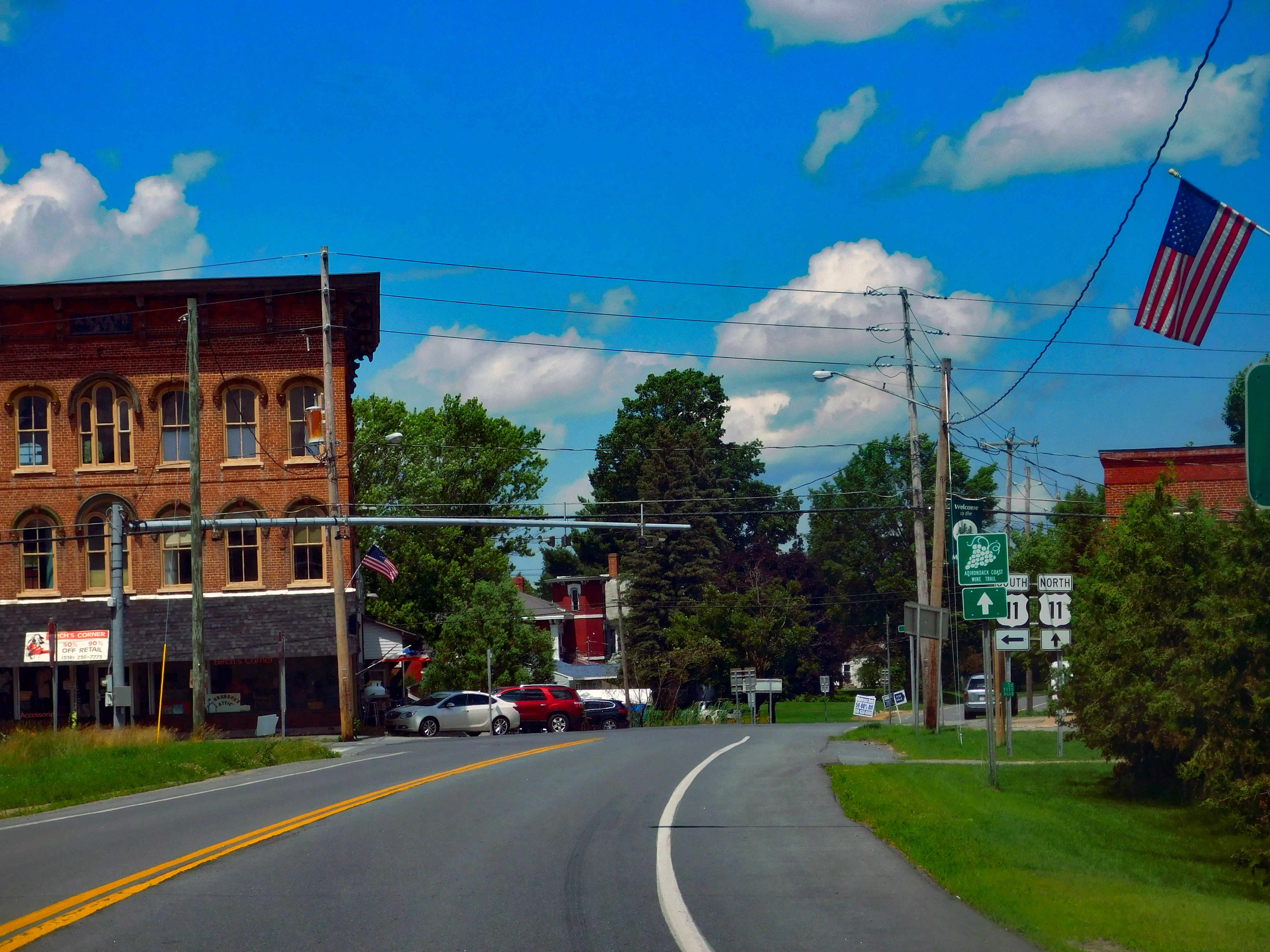 Mooers, New York